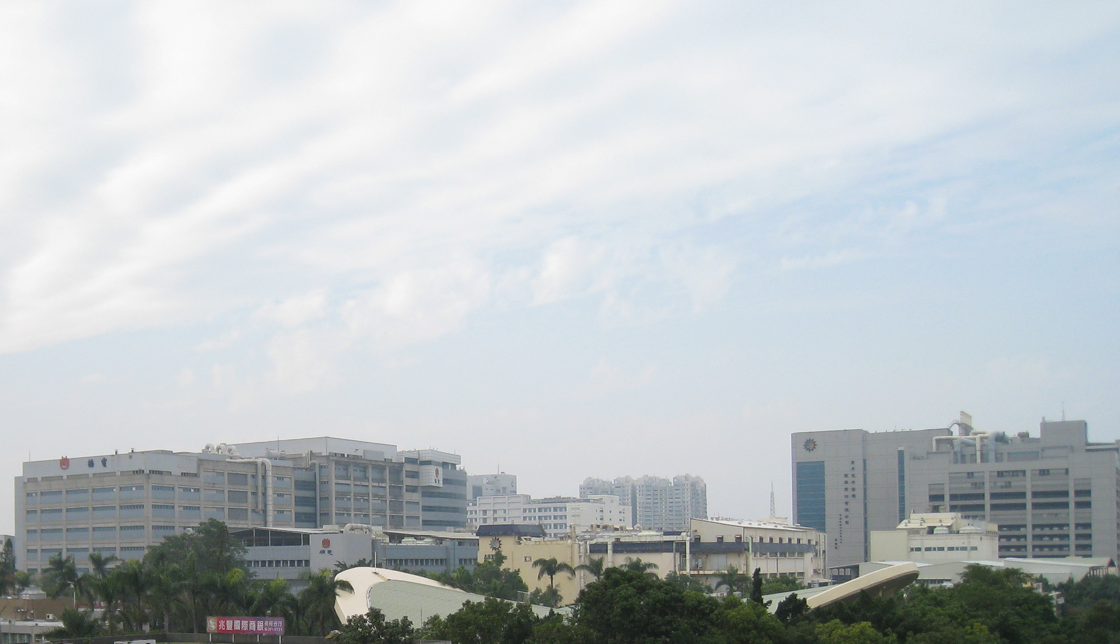 Nanzih Export Processing Zone